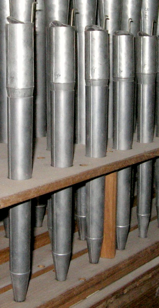 Pipes of Voix Humaine (Vox humana) : organ of the Cathedral of Pamiers (France) in Dom Bedos Style